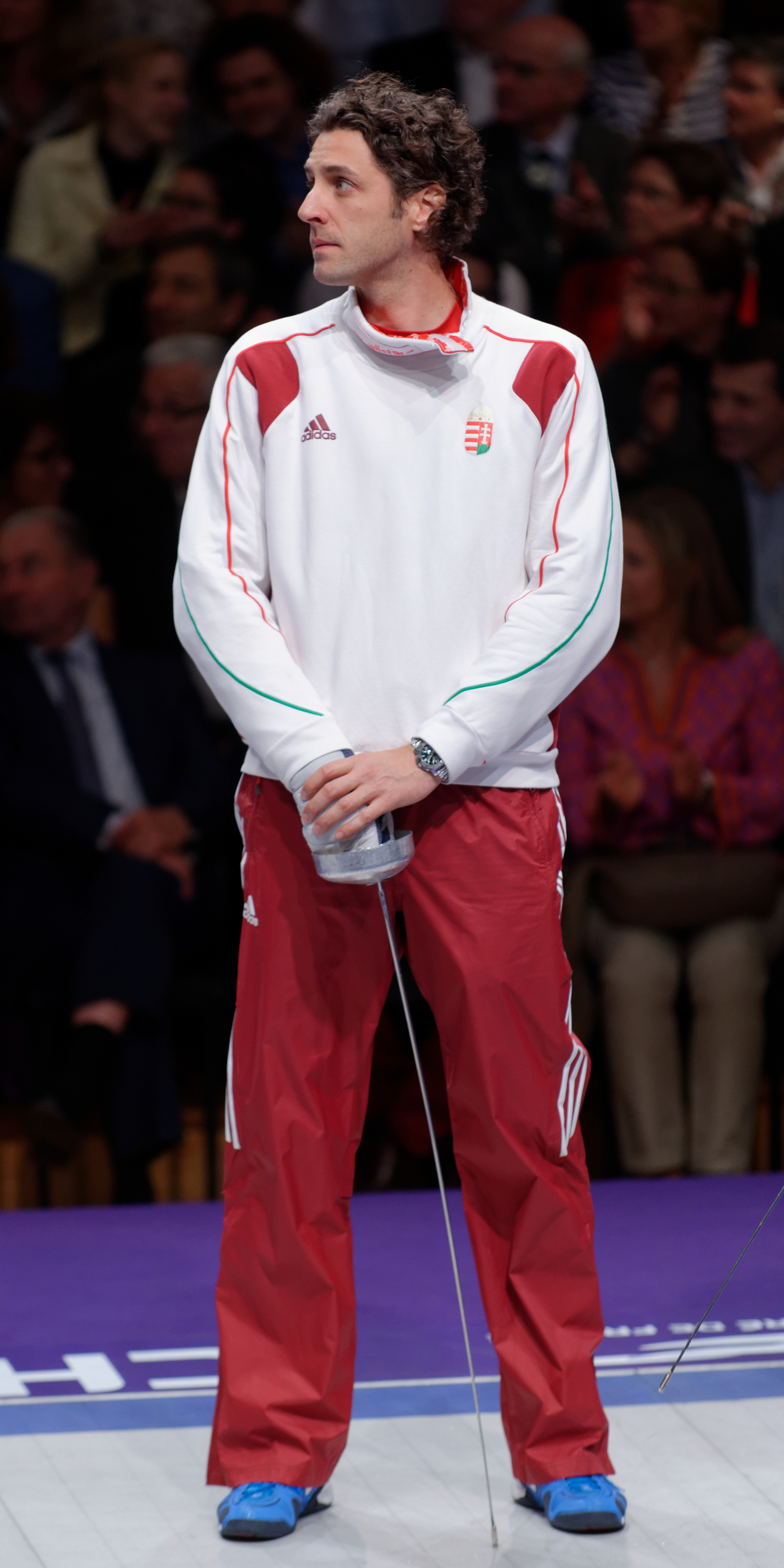 Gábor Boczkó during the quarter-finalists' presentation in the T64 in the Challenge Réseau Ferré de France–Trophée Monal 2013, a men's épée FIE World Cup competition. Louvre Carrousel, Paris.